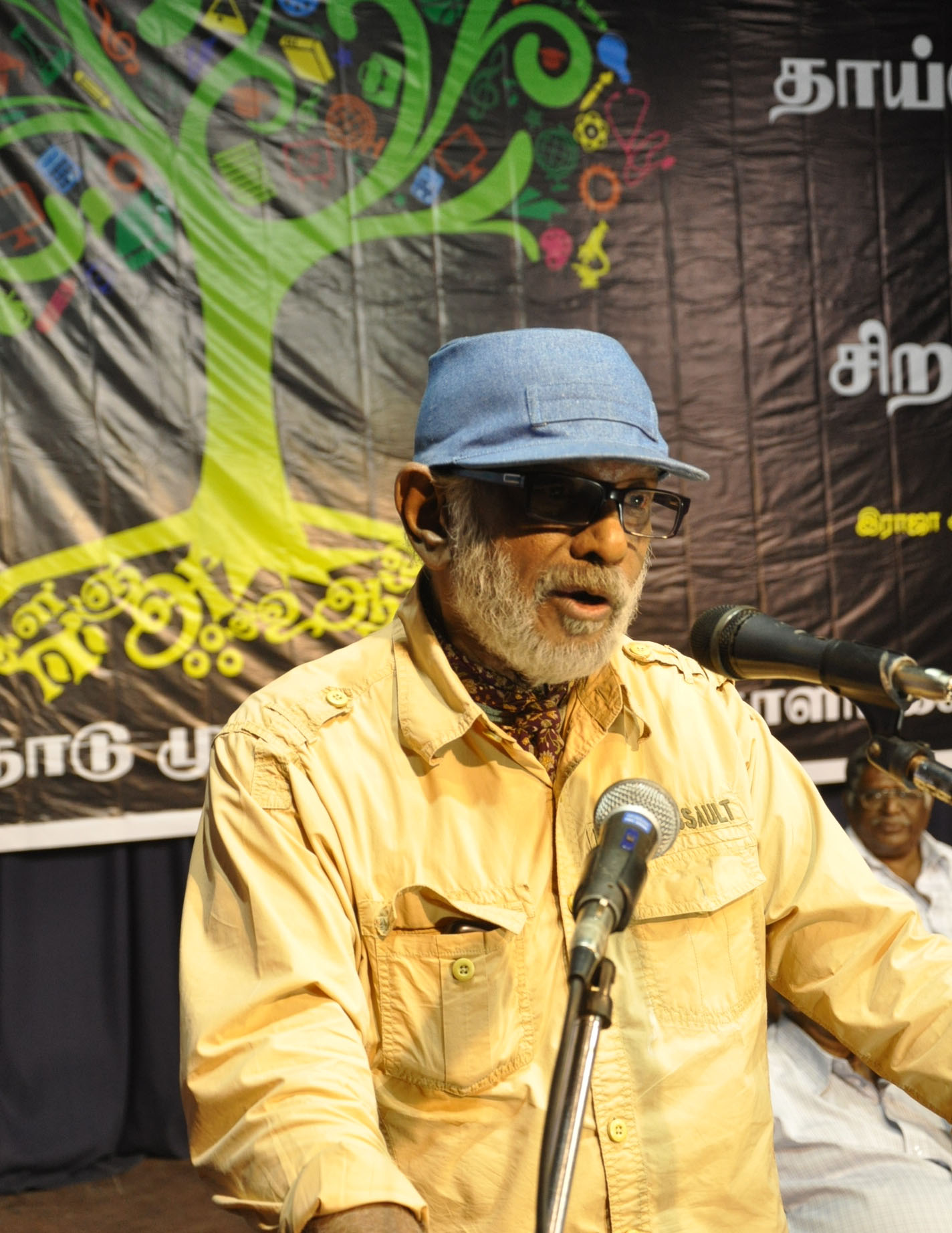 Balu Mahendra in Tamil Nadu Progressive Writers and Artistes Association